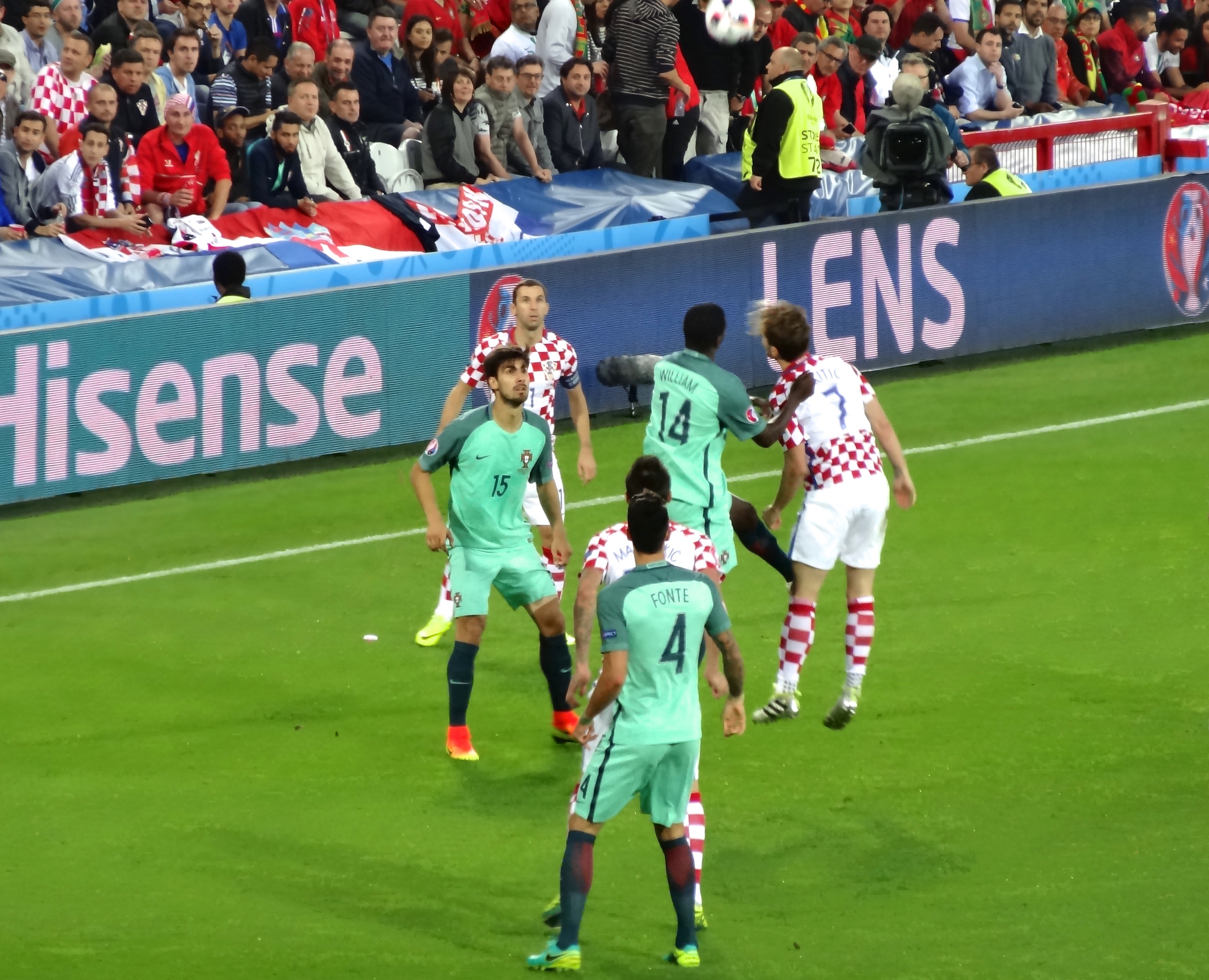 Croatie - Portugal 2016